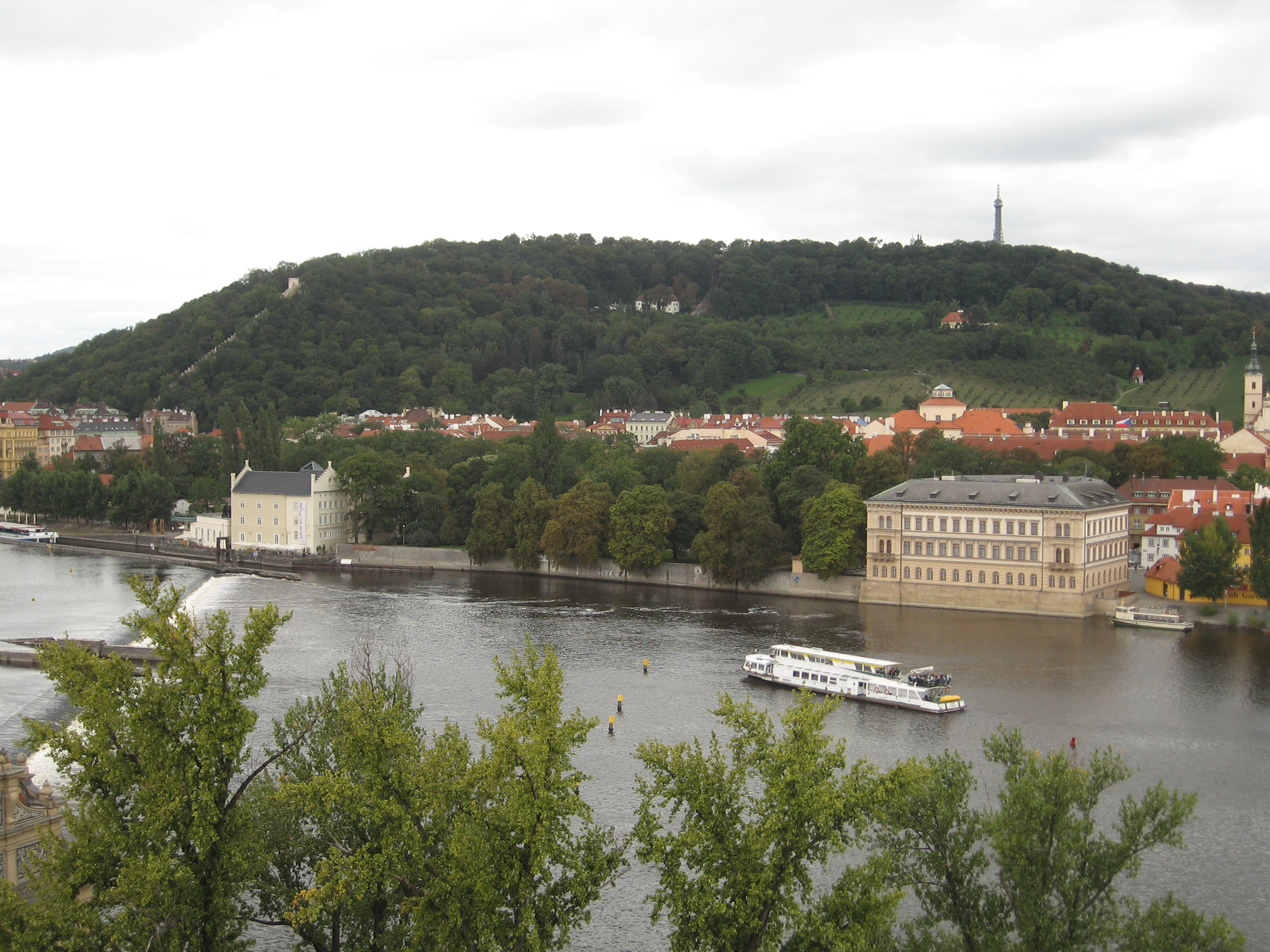 View of Petřín mountain form Old Town Tower of the Charles Bridge